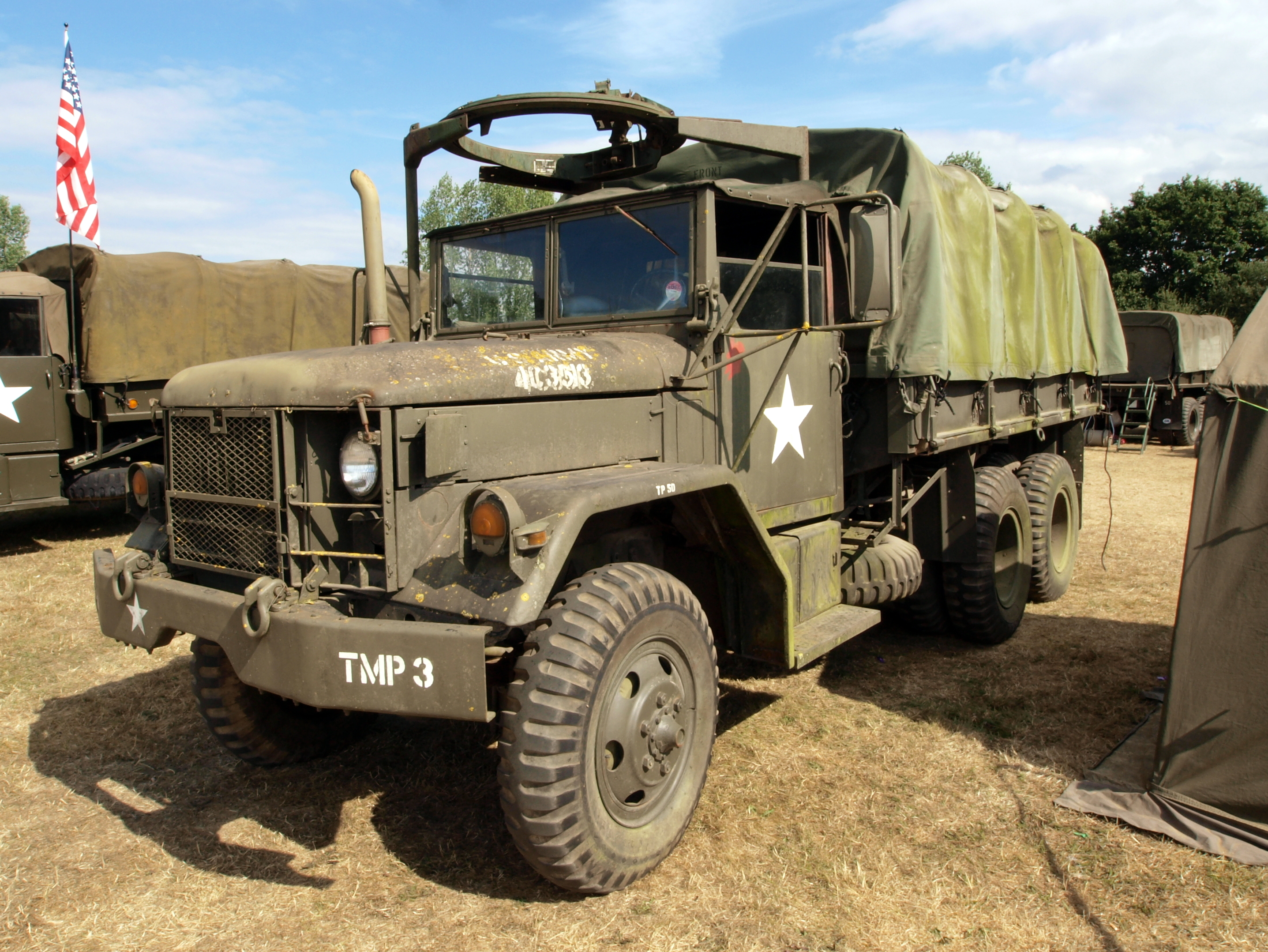 REO, Kaiser, AM General M35A2 Deuce and a Half 6×6 Military Truck